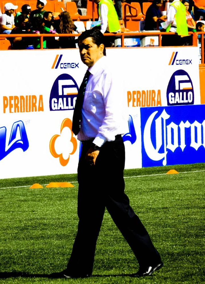 Mexican coach Luis Fernando Tena